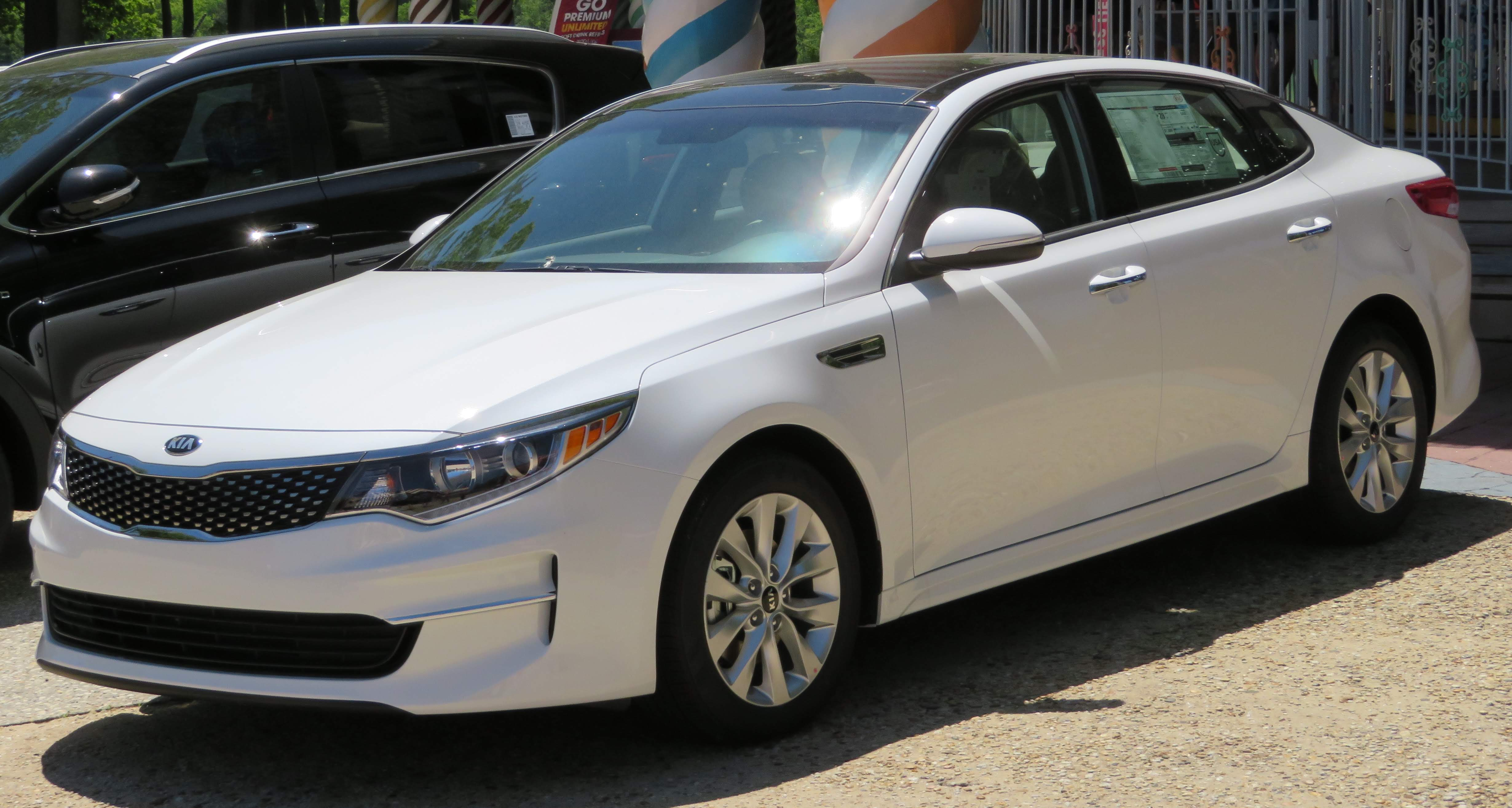 Photographed in Six Flags Amusement Park(Sponsored), Jackson, New Jersey.